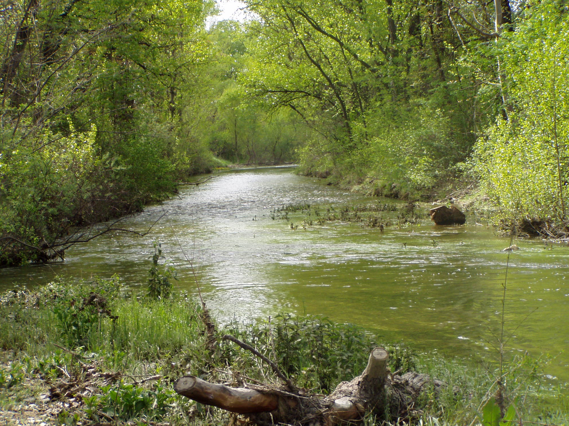 The river of Largue to Villeneuve and Volx